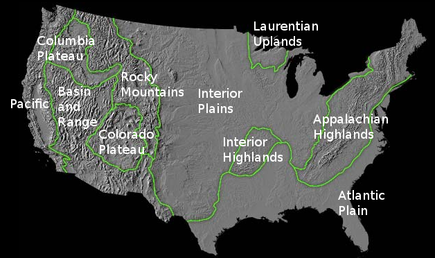 Map of U.S. Geological Provinces. Relief map and outline from USGS, labels added by Hike395 at English Wikipedia